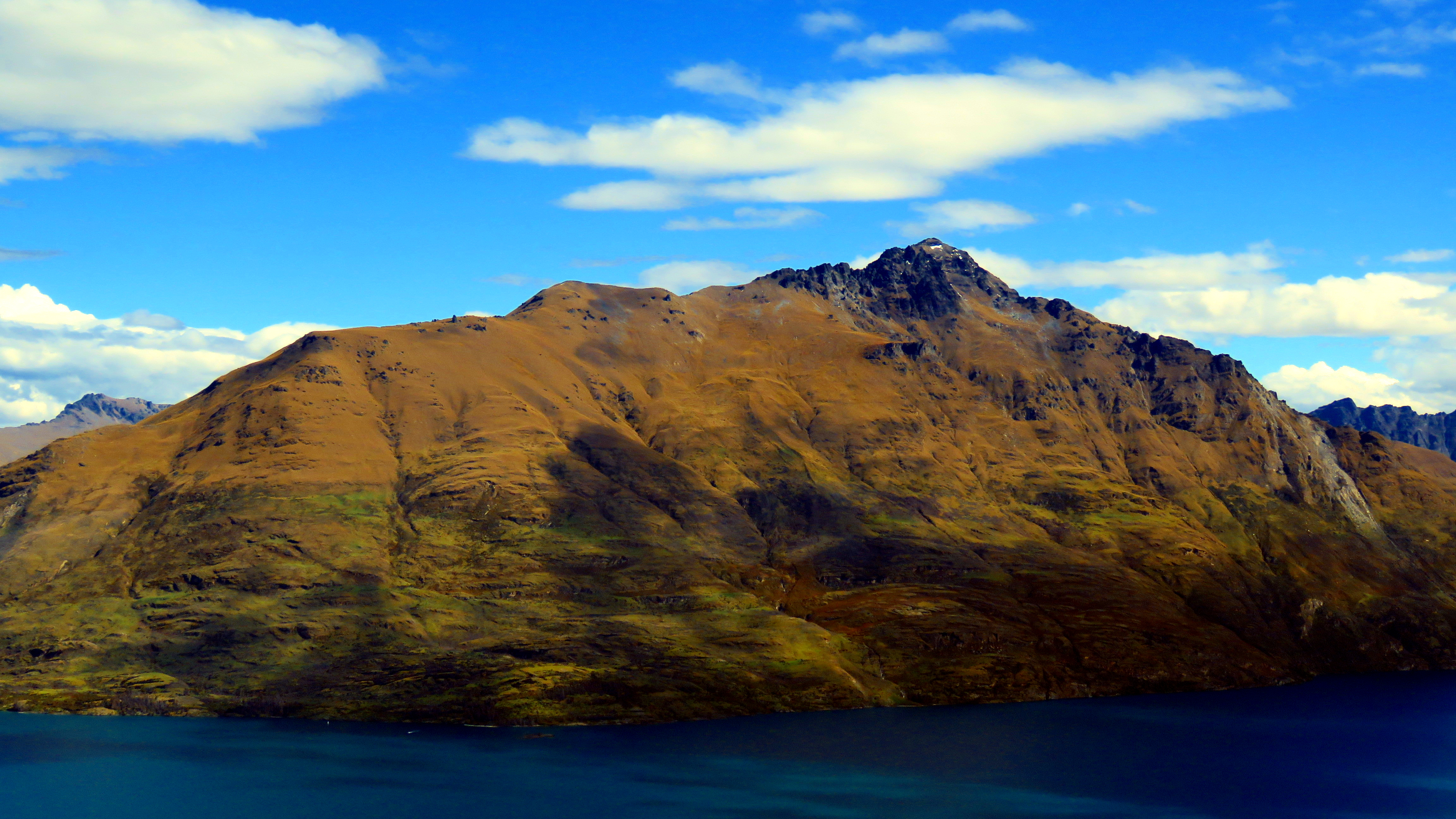 View of the Cecil Peak (Kā Kamu-a-Hakitekura in Maori), in Wakatipu Basin, New Zealand (close to Queenstown).